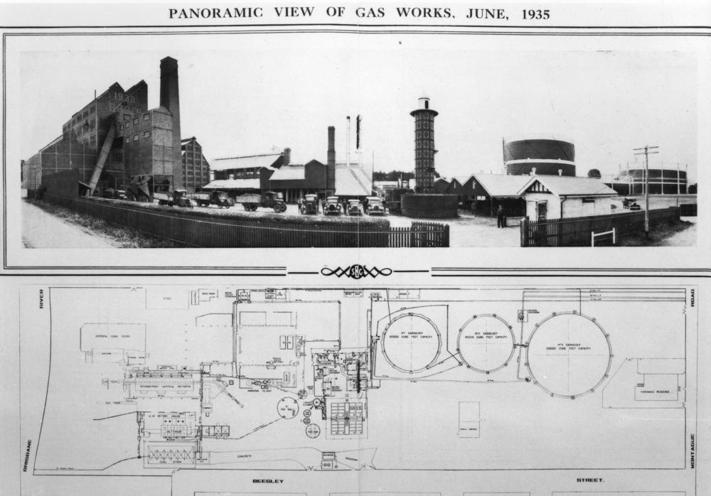 Panoramic view of the Gas Works on Beesley Street, South Brisbane 1935. The elongated view is accompanied by an engineering drawing of the site adjacent to the Brisbane River. The stripping tower near the centre of the photograph is now a heritage listed item, re-erected outside Davies Park.